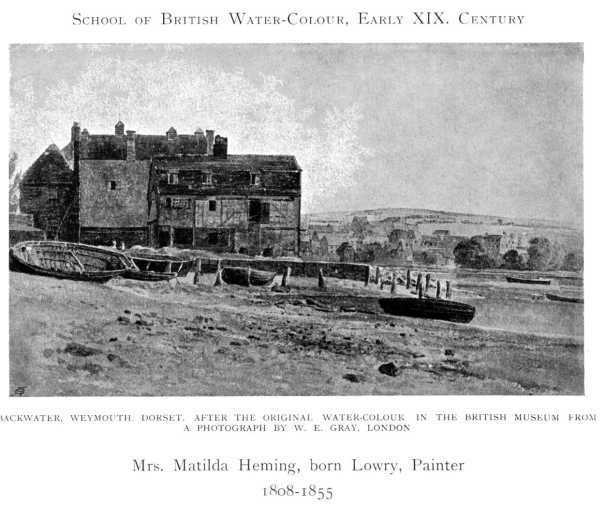 1905 print after page of Women painters of the world, from the time of Caterina Vigri, 1413-1463, to Rosa Bonheur and the present day, by Walter Shaw Sparrow, The Art and Life Library, Hodder & Stoughton, 27 Paternoster Row, London